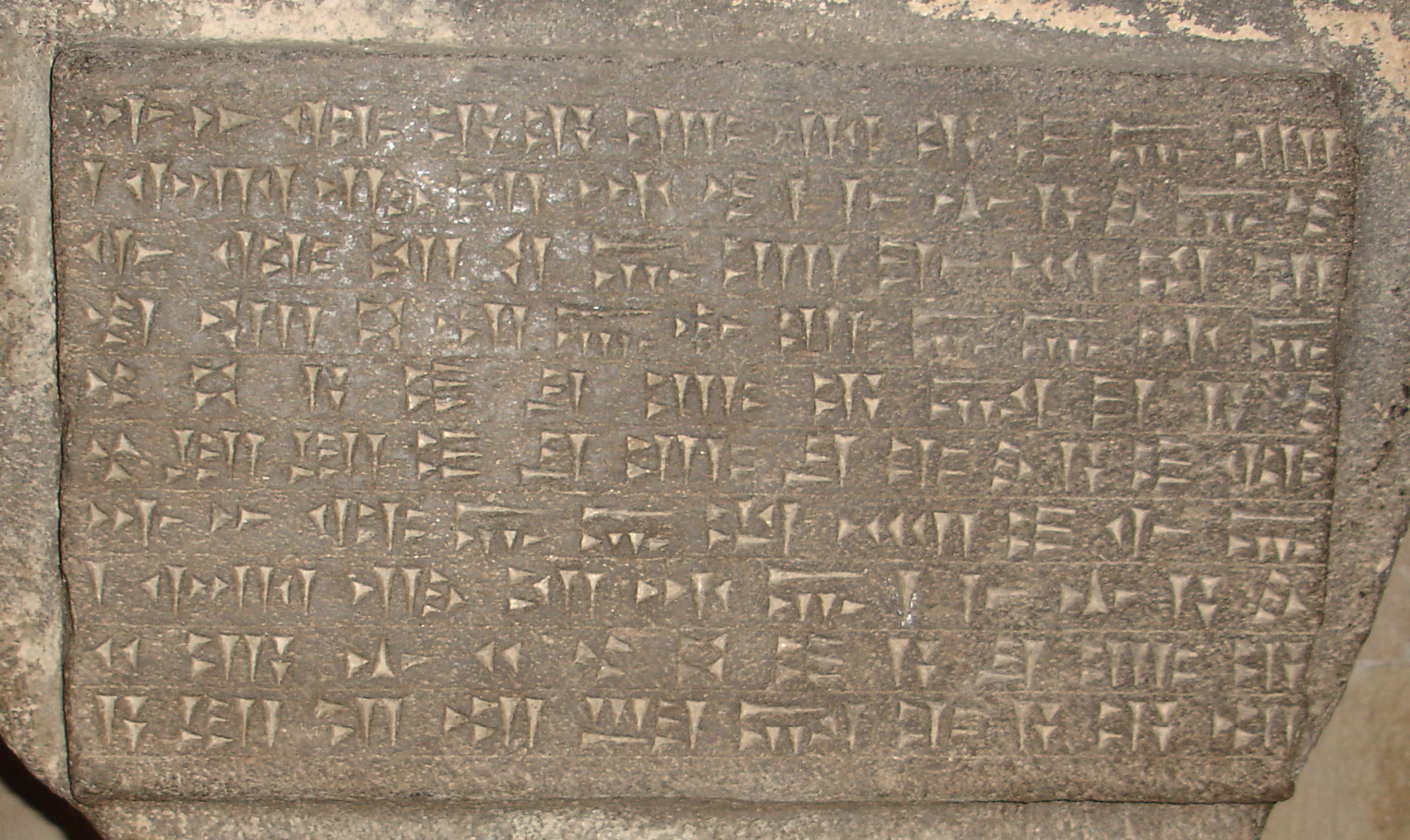 Urartian cuneiform inscription of Argišti in Erebuni